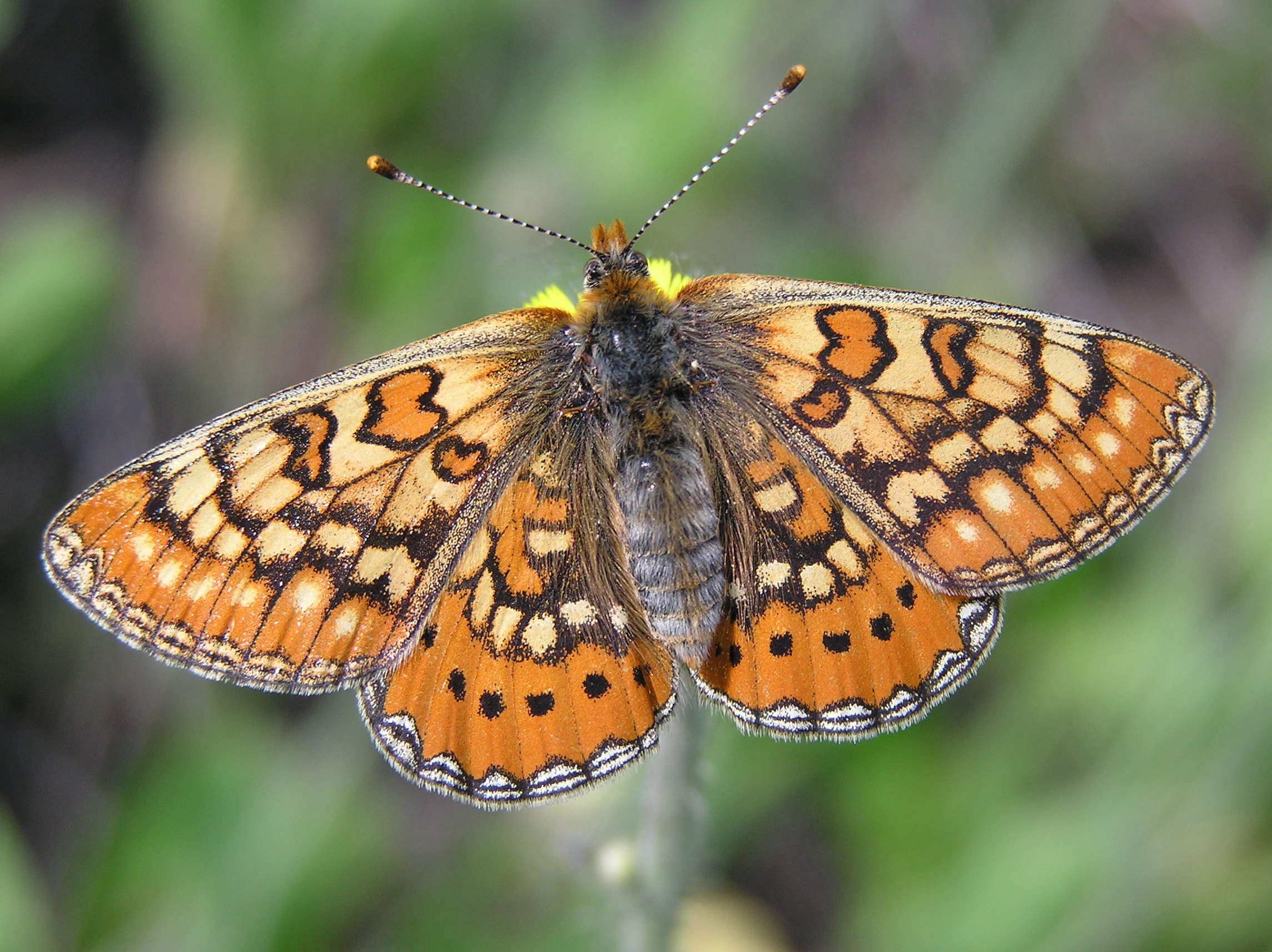 A female of Marsh Fritillary (Euphydryas aurinia) feeding on Hawkbit (Leontodon sp.) flowers. Habitat: south facing chalk and limestone slope with xerophile vegetation. The vicinity of Saratov city, Russia.